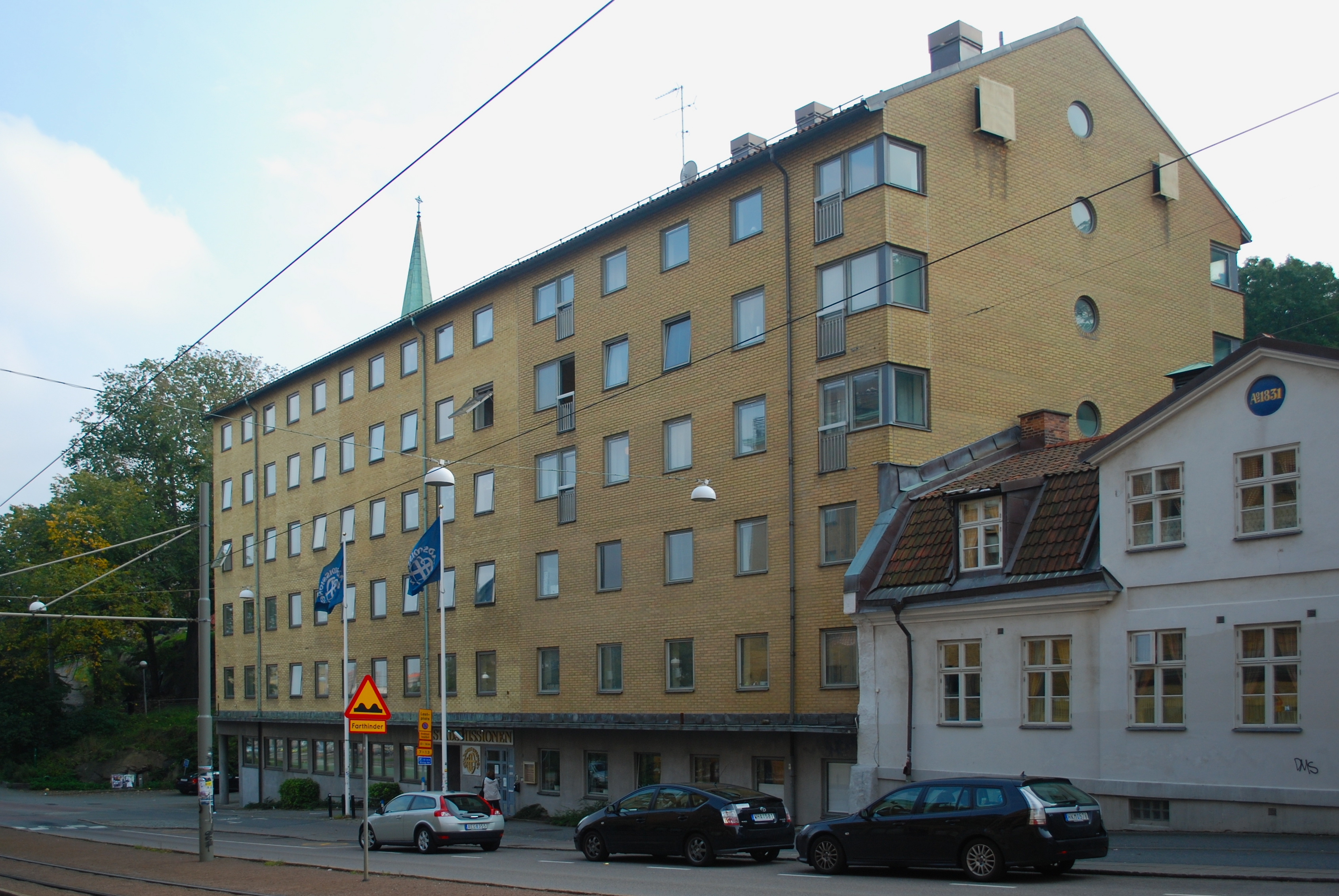 Stadsmissionen, Göteborg.